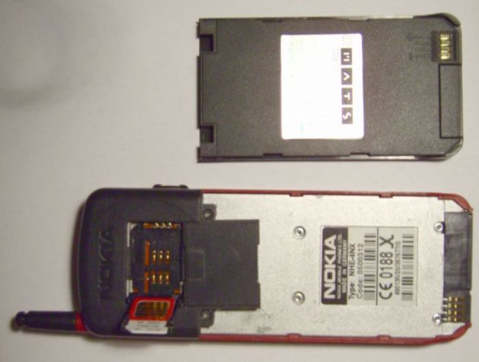 Nokia2110i red back